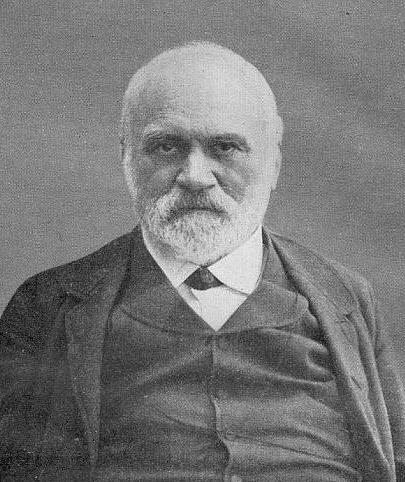 Heinrich Kiepert